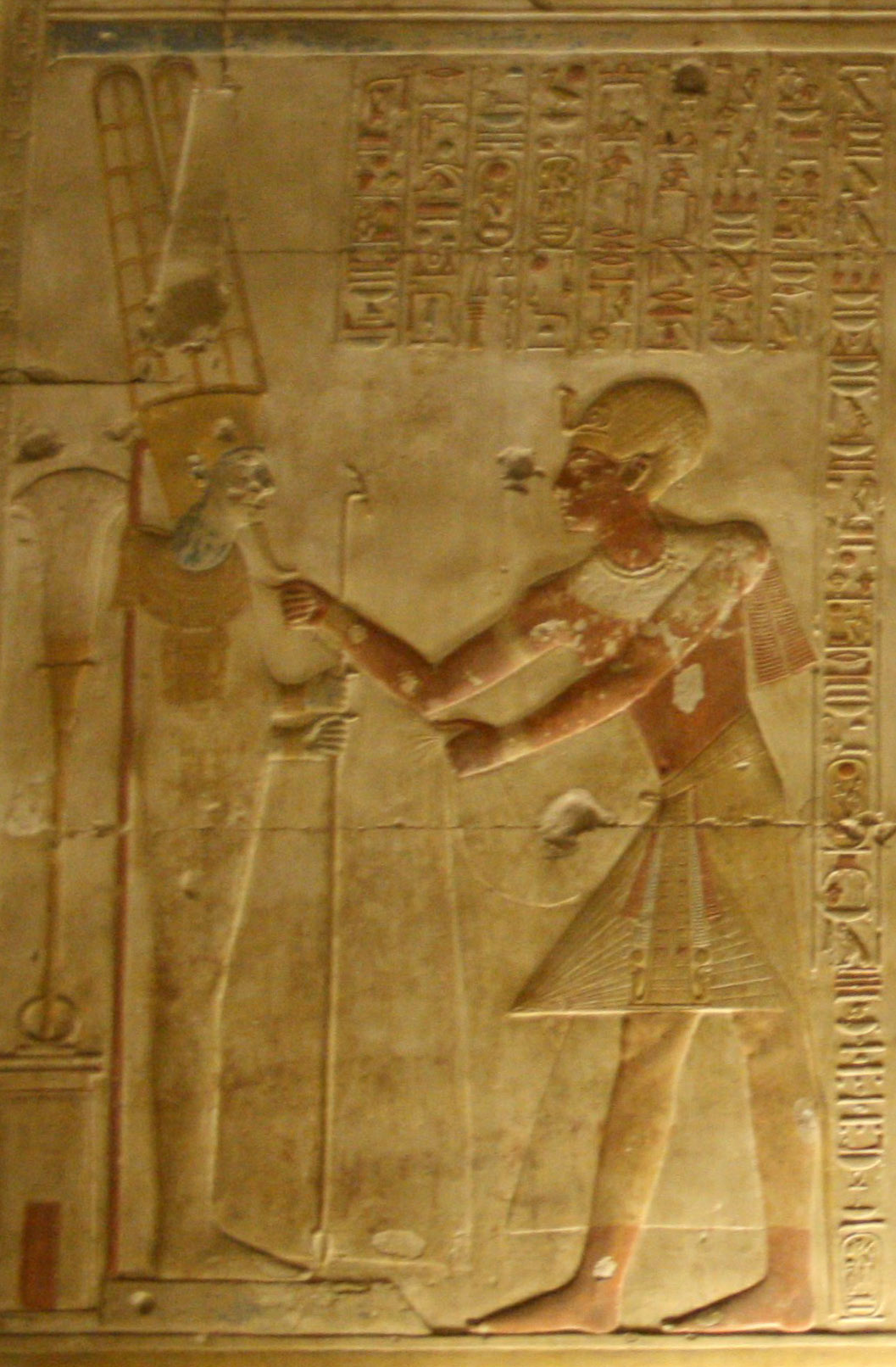 Seti I performs rituals before the god Amun. From the Temple of Seti I at Abydos.